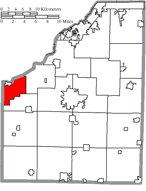 Map of the municipal and township boundaries of Wood County, Ohio, United States, as of the 2000 census, with the location of Grand Rapids Township highlighted. Township borders are shown only in unincorporated areas in order to differentiate incorporated and unincorporated areas more clearly.